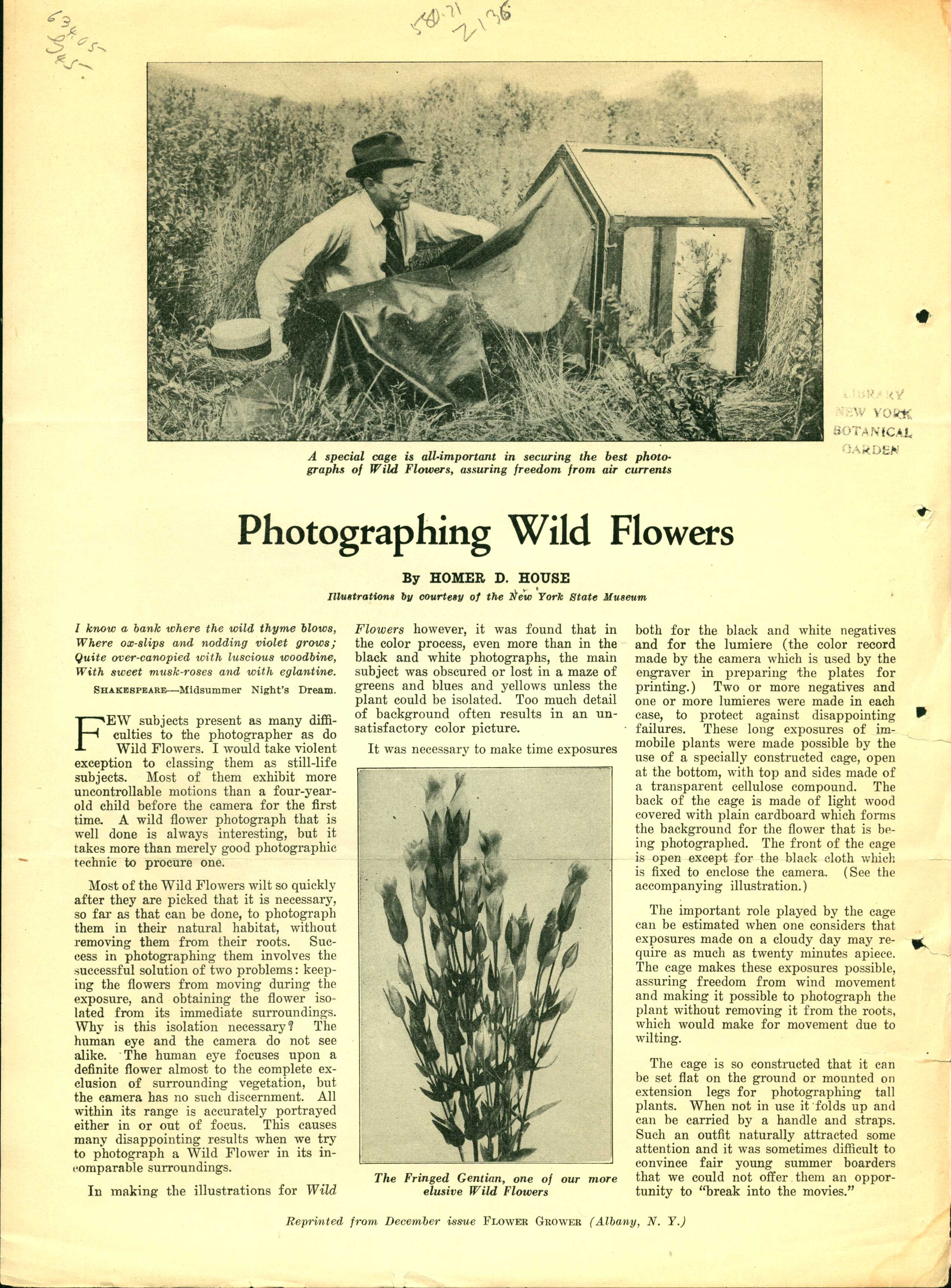 Photographing Wild Flowers by Homer D. House Reprinted from December issue of Flower Grower (Albany, N.Y.)